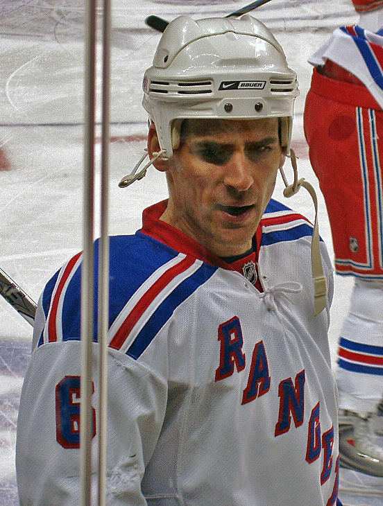 Wade Redden during pre-game warmup vs the Los Angeles Kings @ Staples Center. 12/17/2008